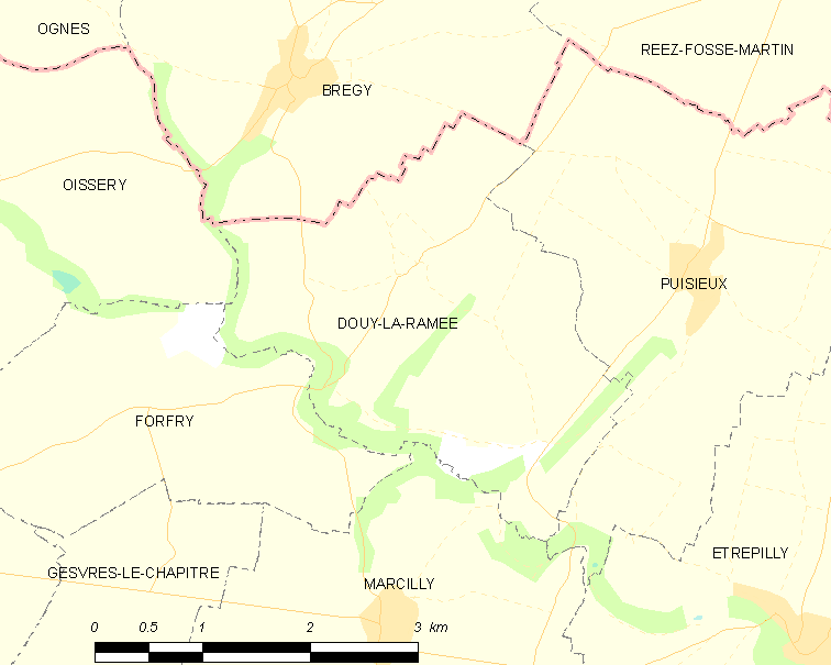 Map of French municipality Douy-la-Ramée